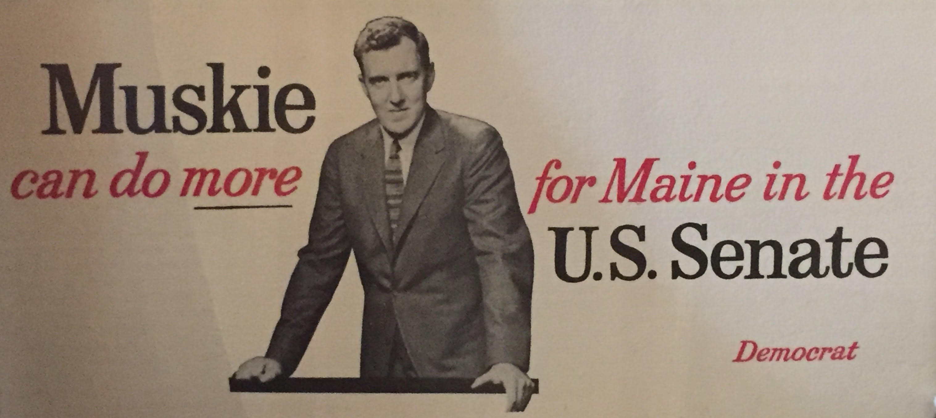 Senate ad for Edmund Muskie